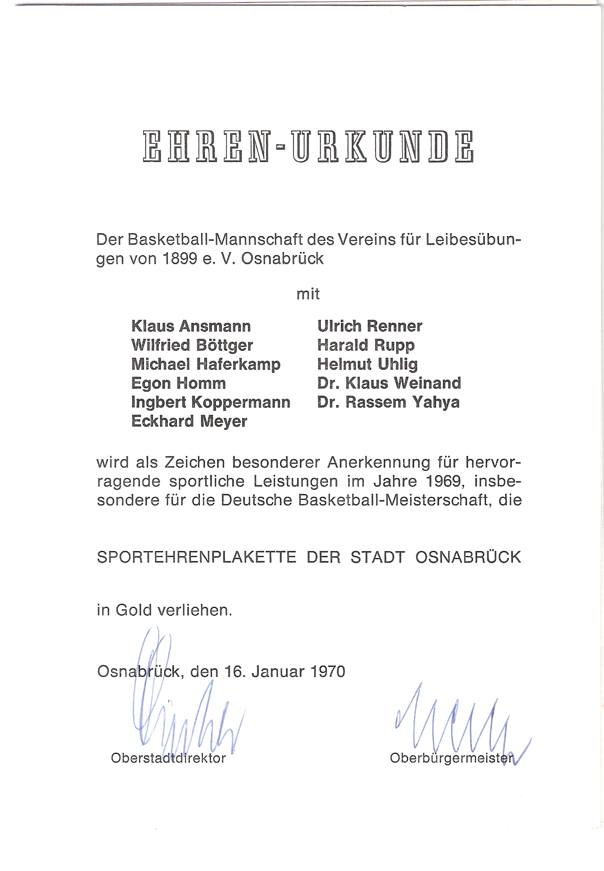 Certificate of honor for basketball player of VfL Osnabrück